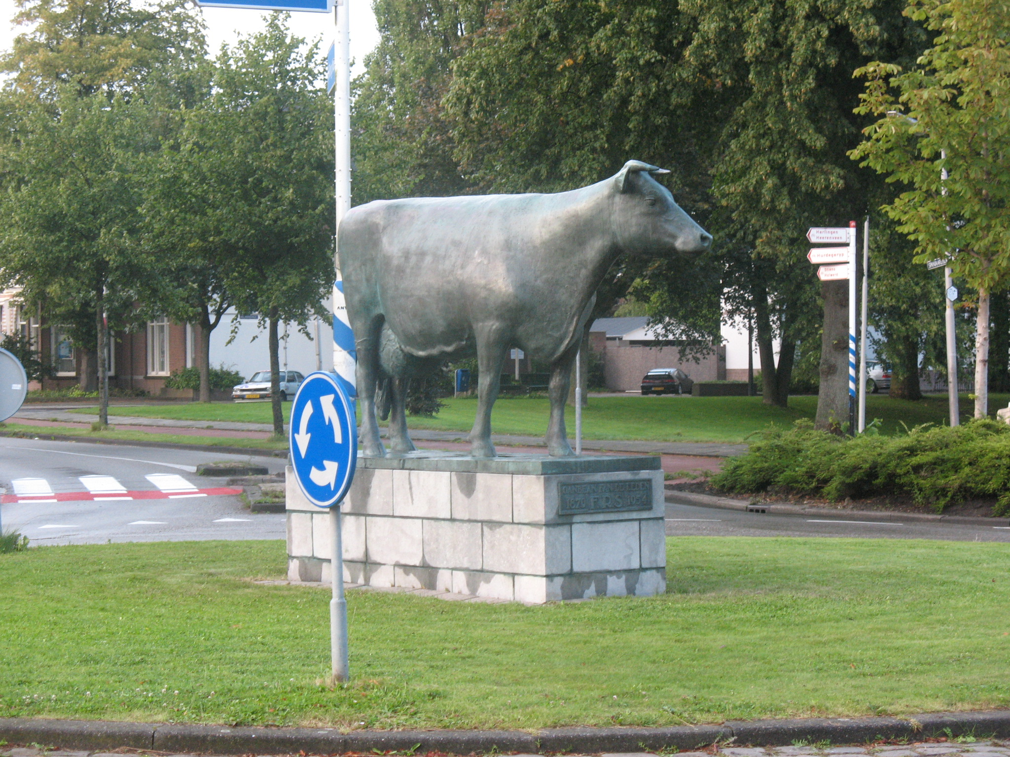 Leeuwarden, ûs mem (our mother), statue made by Gerhardus Jan Adema in 1954